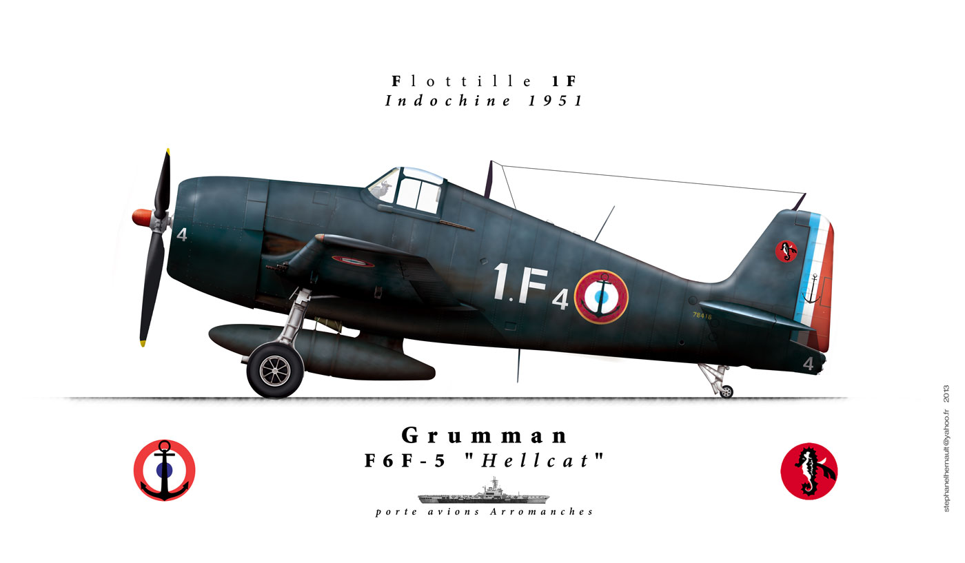 Grumman F6F5 Hellcat French Navy Flottille 1F